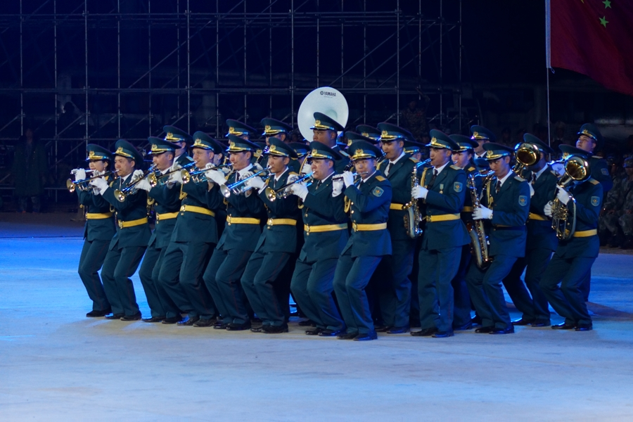 Первый Международный военно-музыкальный фестиваль «Труба мира» в рамках международного учения «Мирная миссия-2014»